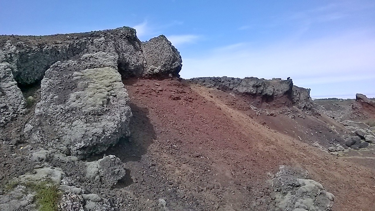 Rauðhólar craters near Reykjavík